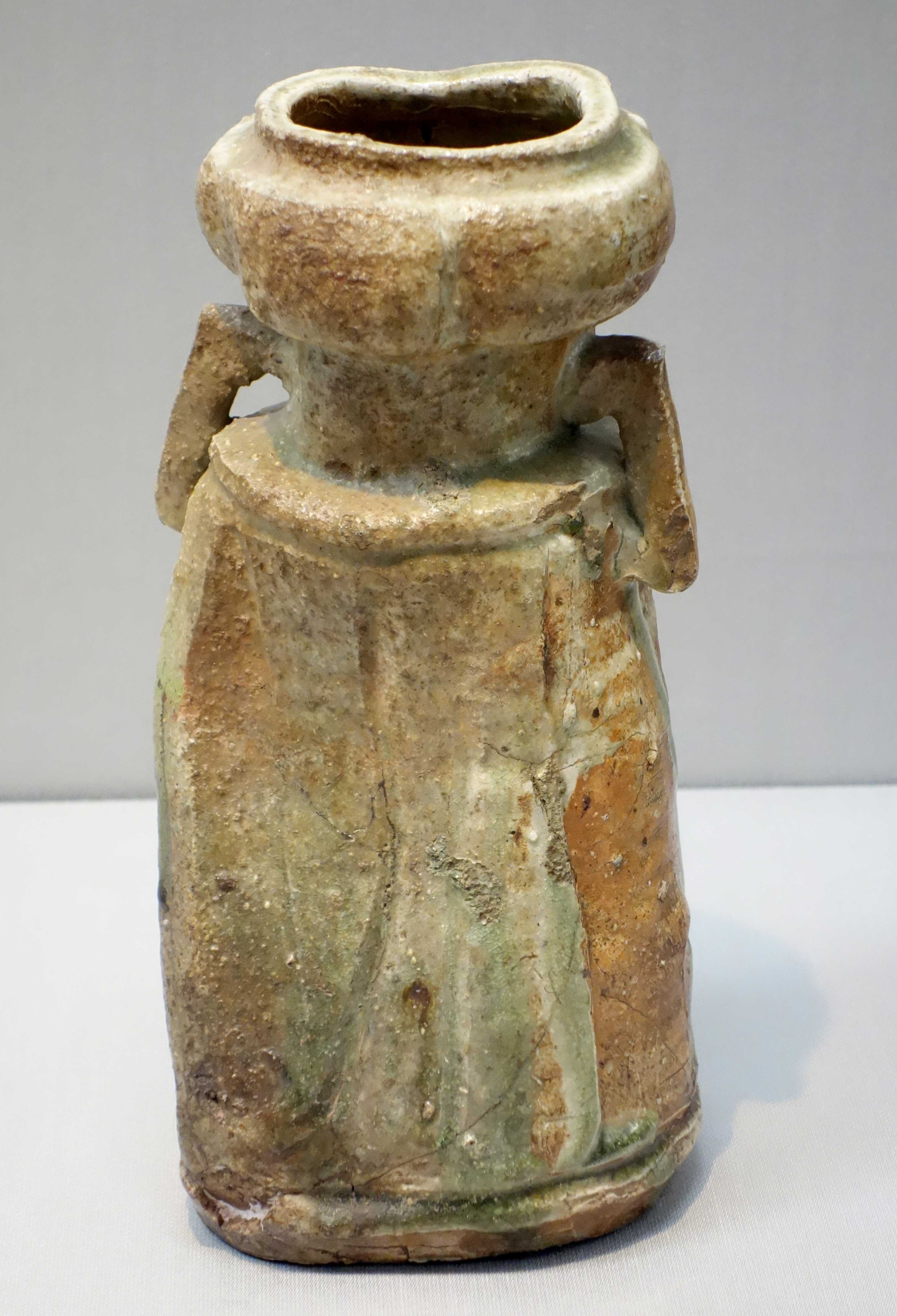 Flower Vase with Lugs, Iga ware, Edo period, 17th century. H. 28.6, mouth D. 8.8x9.1, bottom 11.8x12.7. G5732. Exhibit in the Tokyo National Museum, Tokyo, Japan. This artwork is old enough so that it is in the public domain.